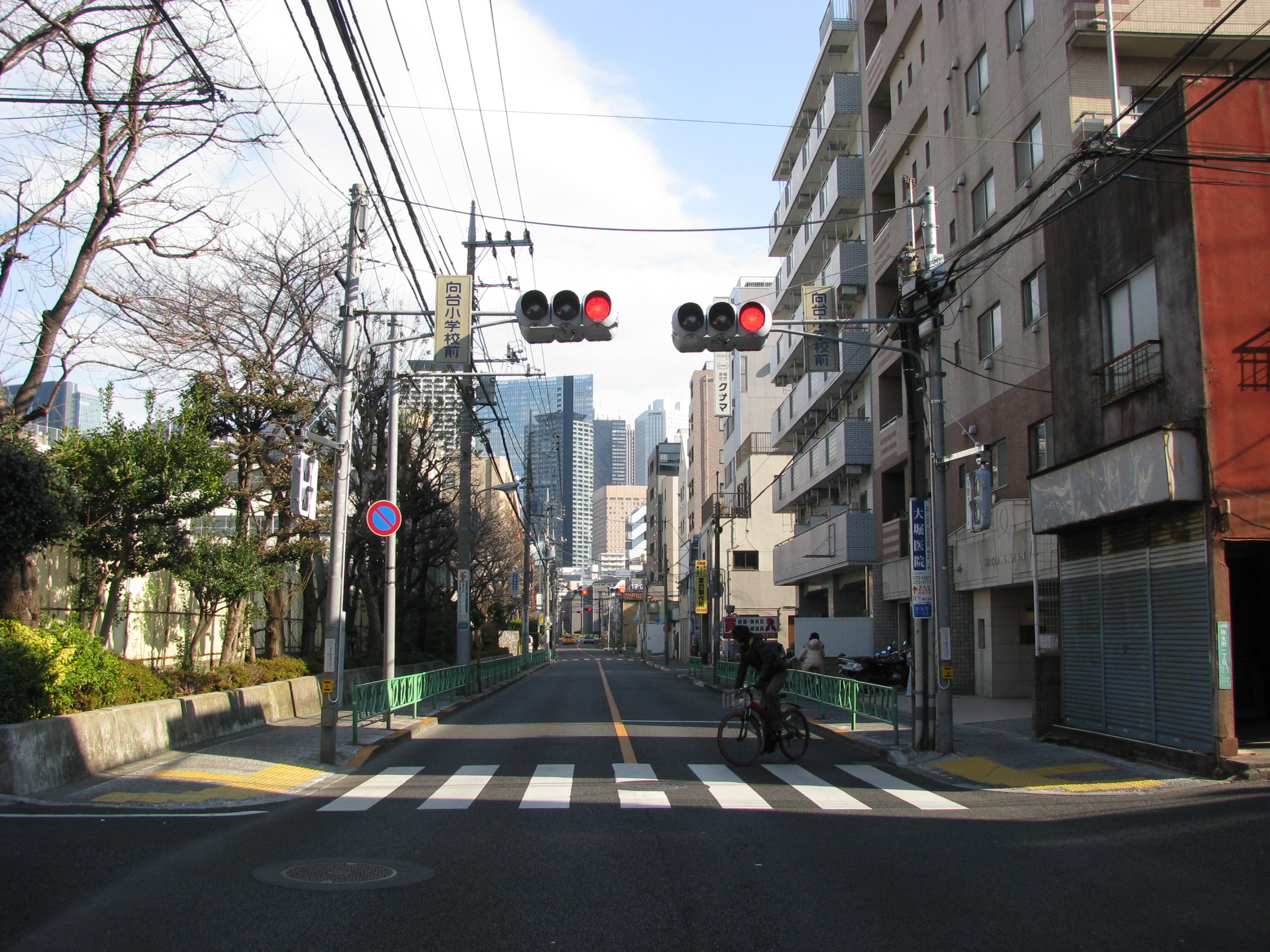 View of the Yayoi-chō in Nakano, Tokyo, Japan.